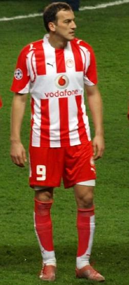 Darko Kovačević playing for Olympiacos C.F.P. in 2008